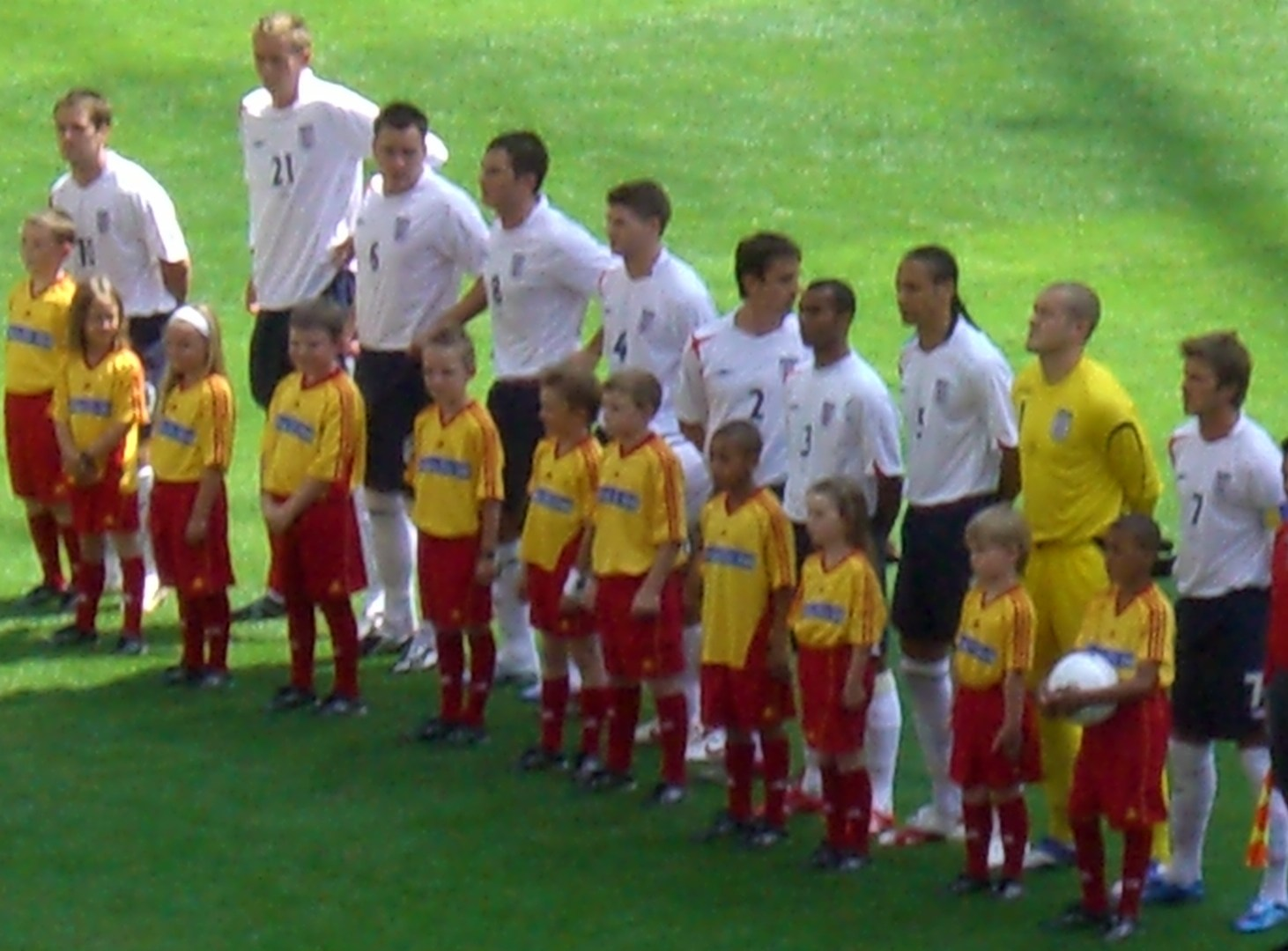 England team (v. Paraguay at the World Cup). From left to right: Owen, Crouch, Terry, Lampard, Gerrard, Neville, Ashley Cole, Ferdinand, Robinson and Beckham.